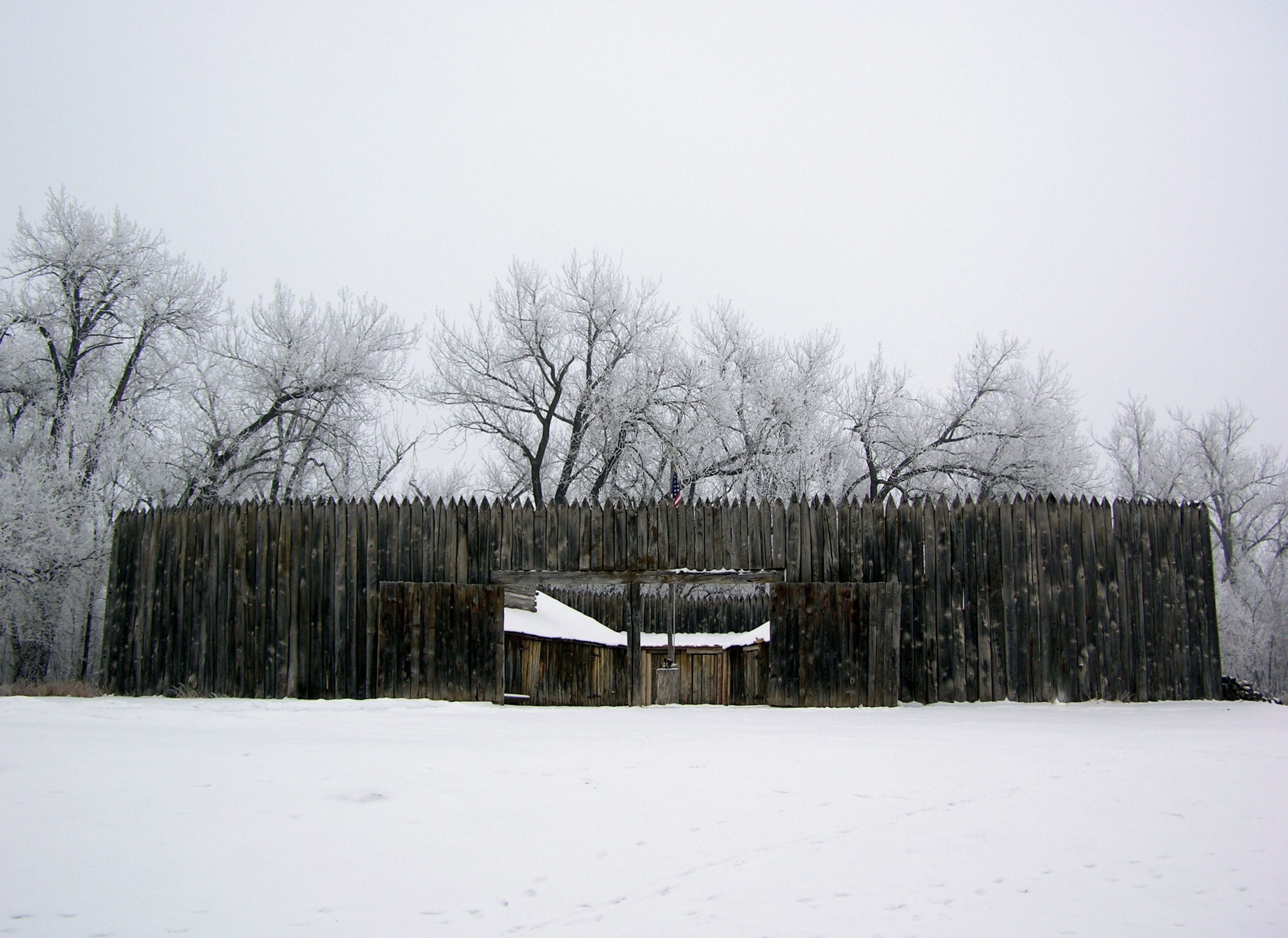 The reconstruction of Fort Mandan, near Washburn, North Dakota